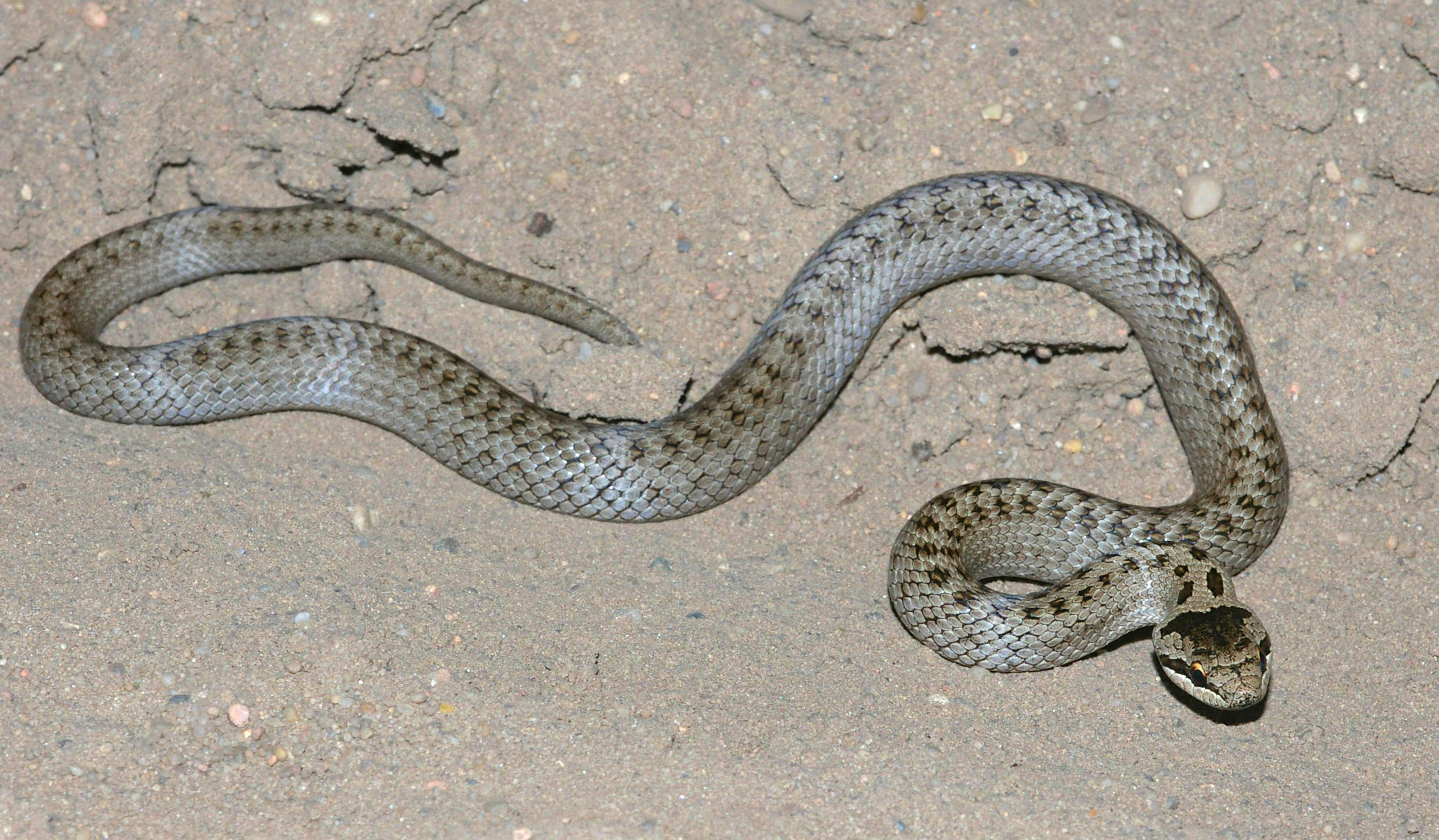 The Smooth Snake, Coronella austriaca. This is a young specimen (probably second life year) with an estimated length of 25 cm and a body diameter of about 10-12 mm.